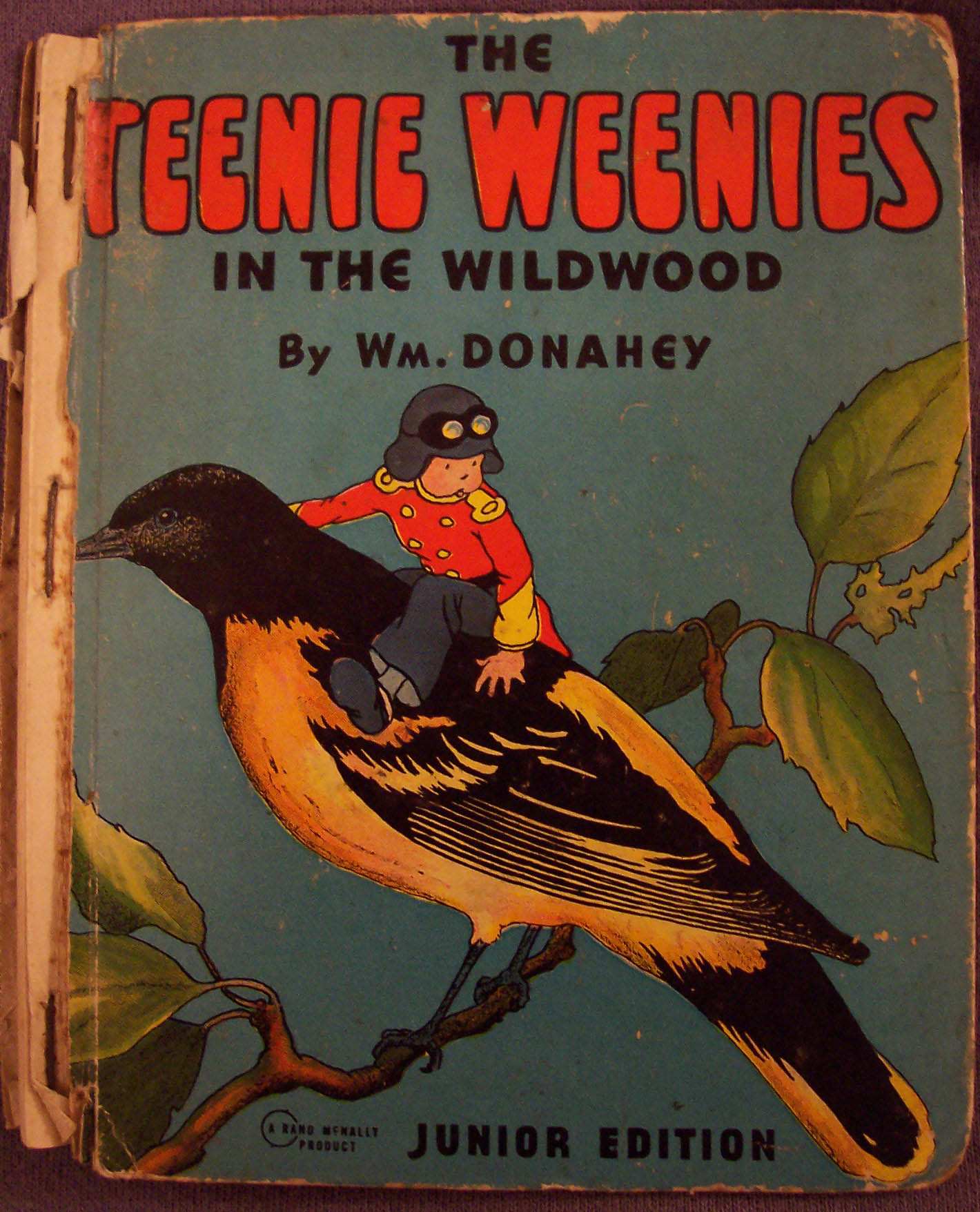 Picture of book cover of "The Teenie Weenies in the Wildwood" published in 1923.